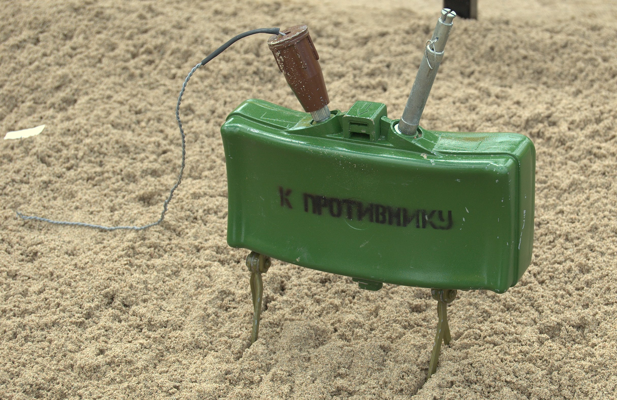 This is an non-armed MON-50 anti-personnel land mine manufactured in the former Soviet Union. This particular mine was photographed at an exhibition in Gothenburg (Battlecamp Göteborg 2006) where SWEDEC (the Swedish military's EOD and Demining Centre) were showing different types of mines. All the mines on display were of course inert (blinds). Because the shape of the MON-50 is very similar to the M18A1 Claymore Antipersonnel Mine manufactured by the US, a lot of people would describe the MON-50 as having a "claymore shape". Camera: Nikon D50